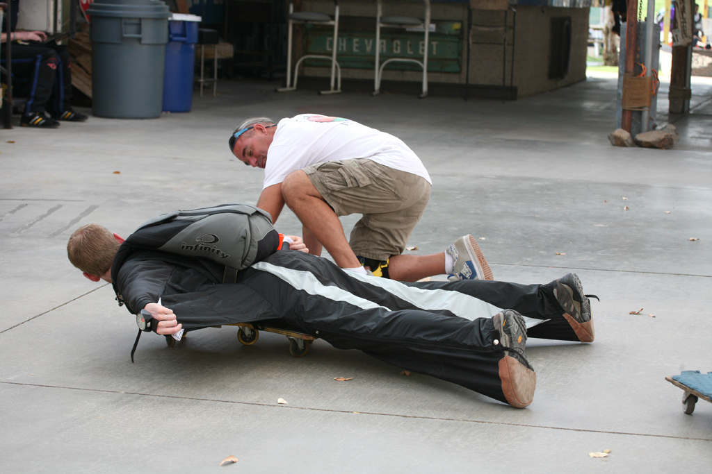 Wingsuit First Flight Course